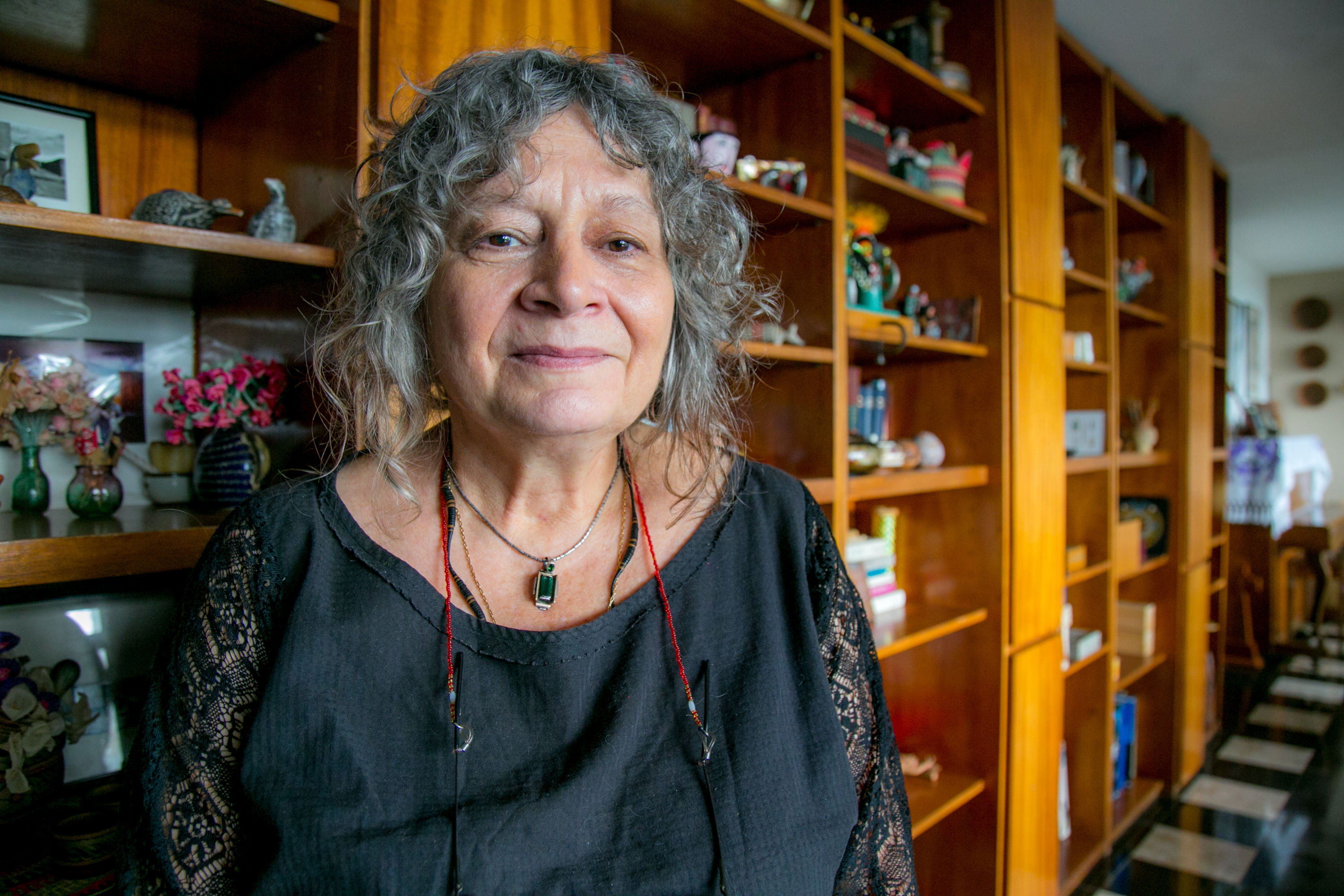 Anthropologist Rita Laura Segato